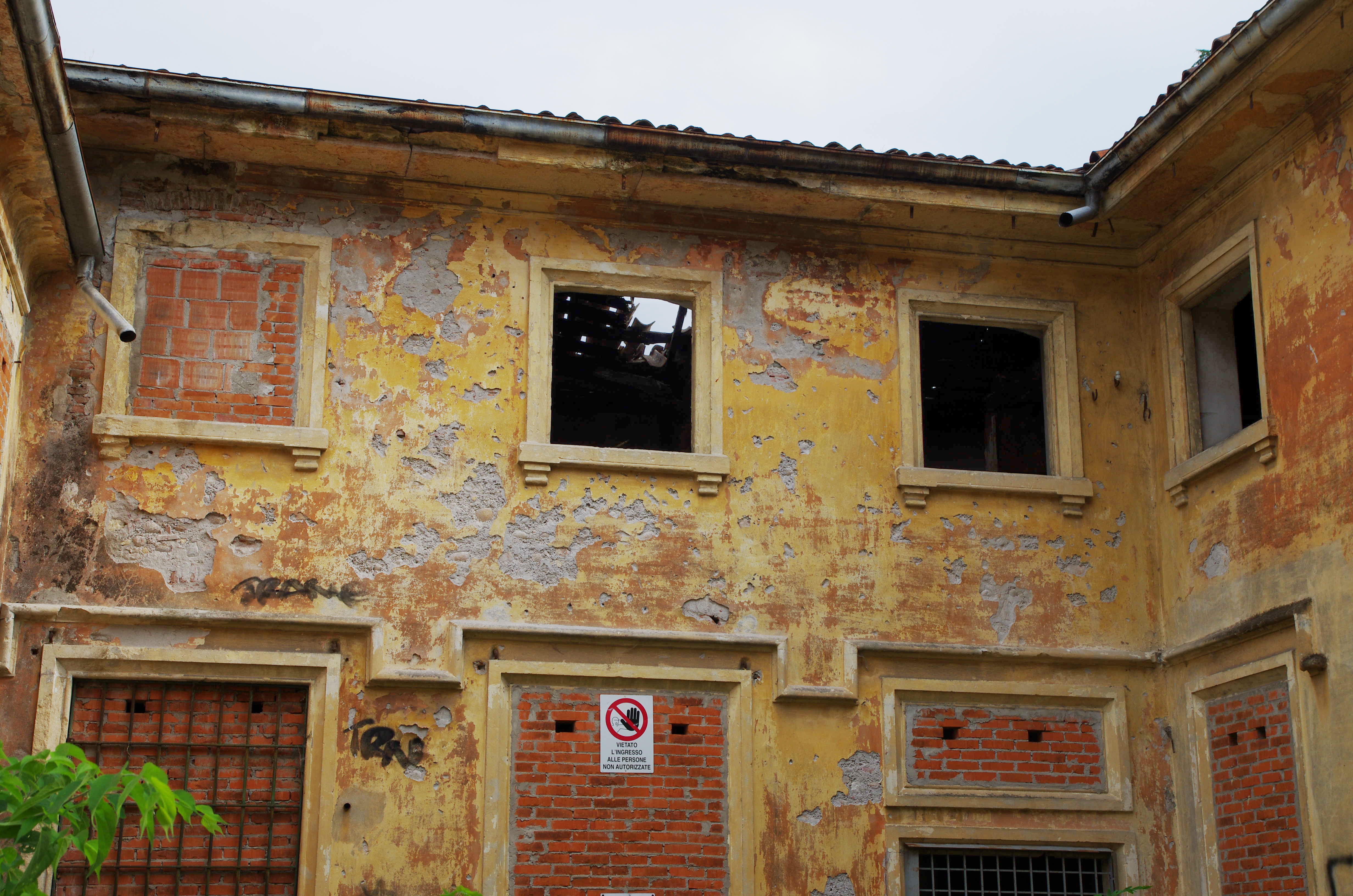 Typical example of mismanagement of the Italian cultural heritage, now being restored after decades of neglect